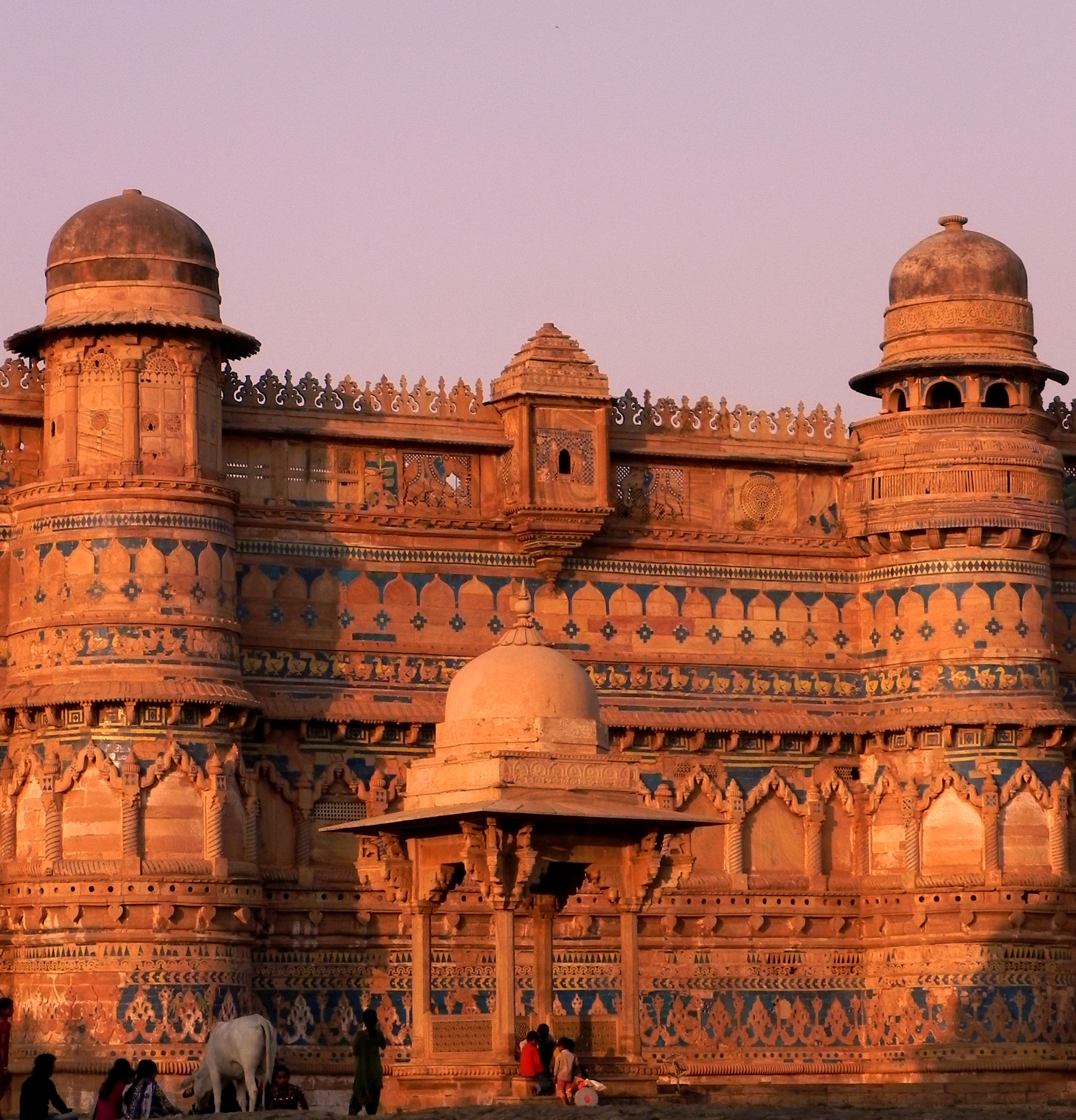 A gorgeous and stout fort built on a hillock to protect the onslaught of raiders attracted by the richness of Gwalior, still draws millions of tourists from across the globe.